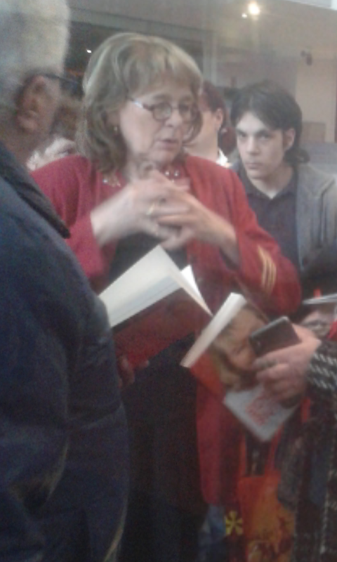 Édith Butler photographed in St. Hyacinthe, Quebec, Canada at the Lassonde Arts Centre.